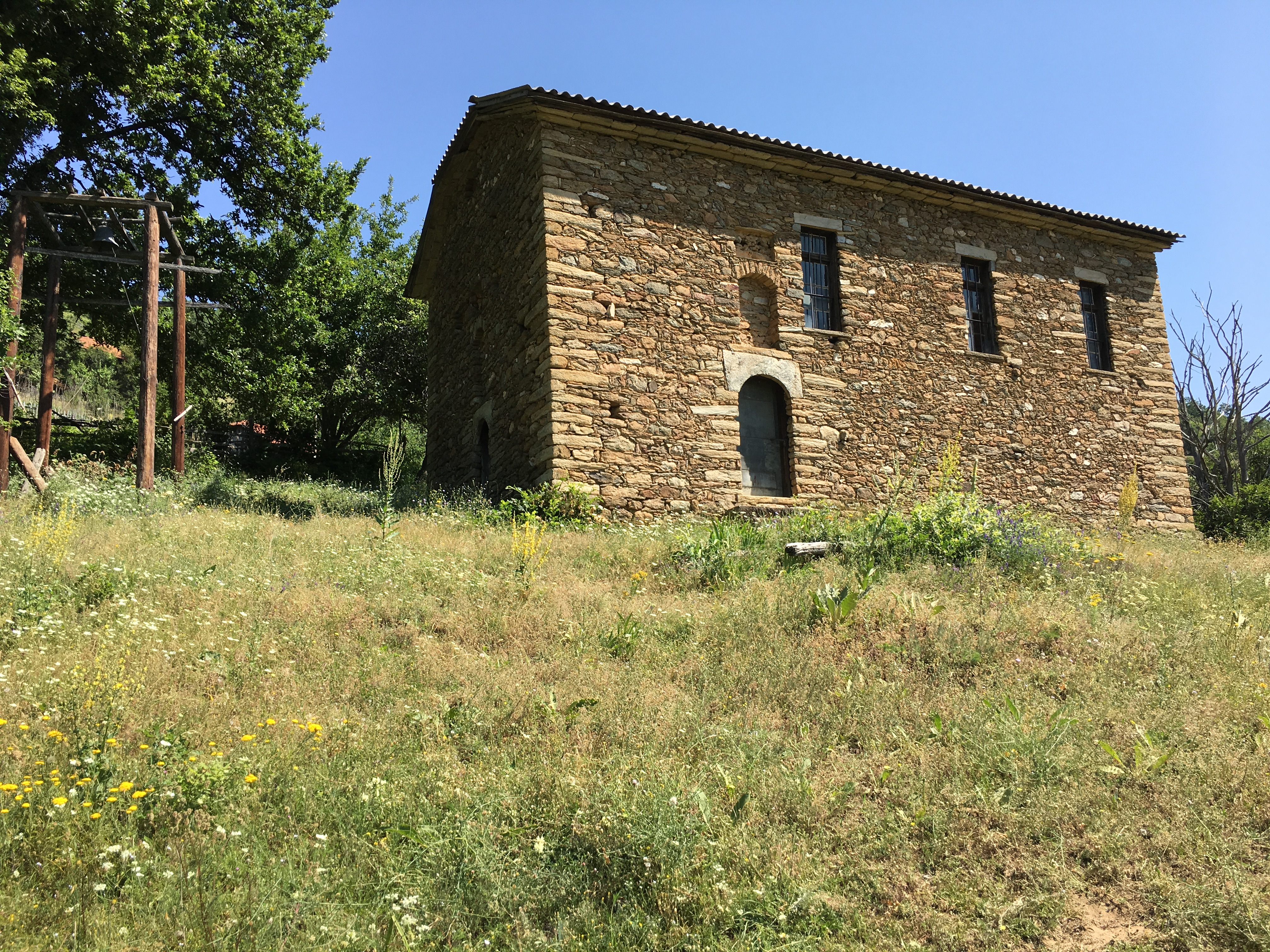 St. Nicholas Church in the village of Dolno Krušje